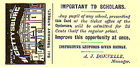 A ticket to the Boston Exhibition of the Gettysburg Cyclorama.